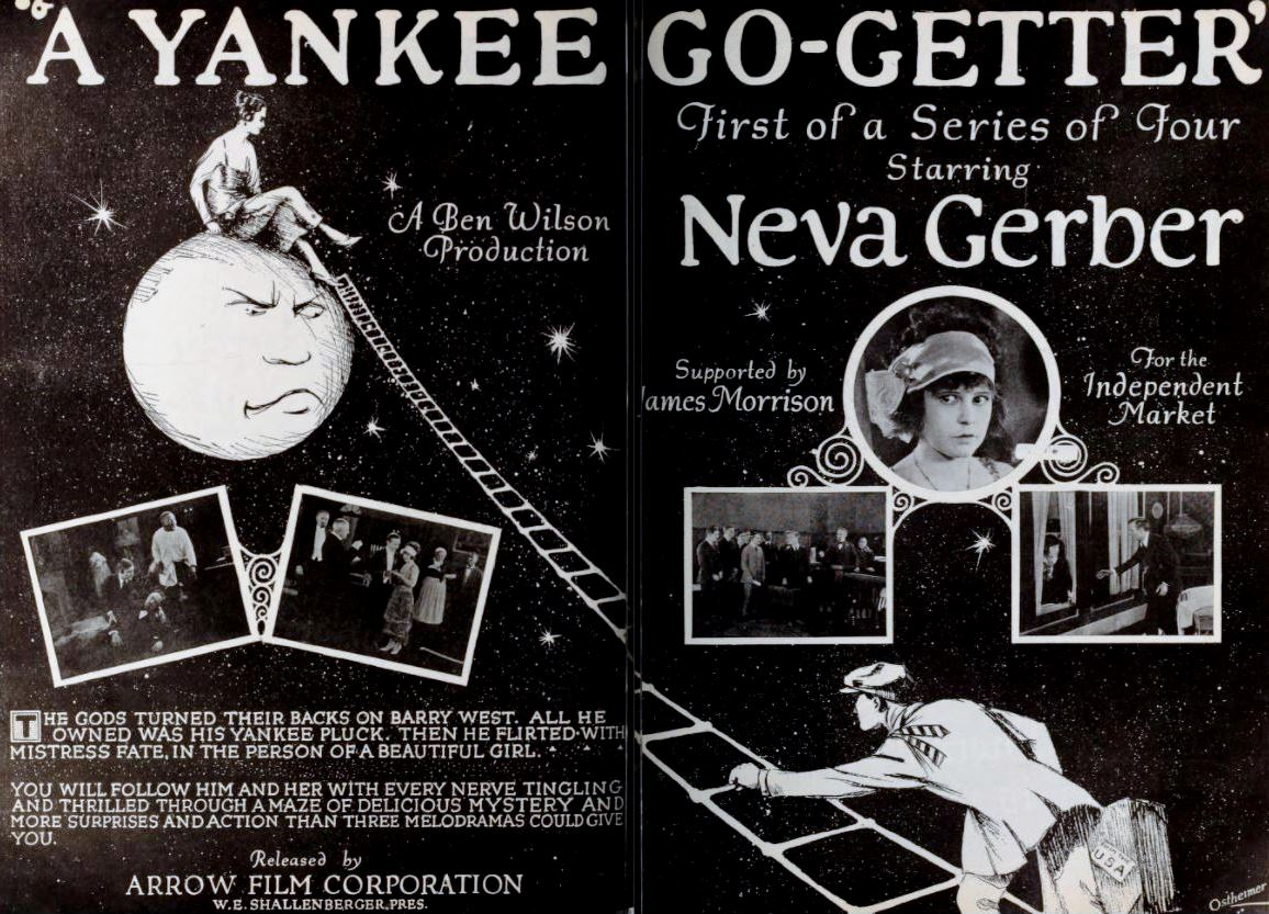 Advertisement for the American drama film A Yankee Go-Getter (1921) with Neva Gerber, on pages 26 and 27 of the May 14, 1921 Exhibitors Herald.